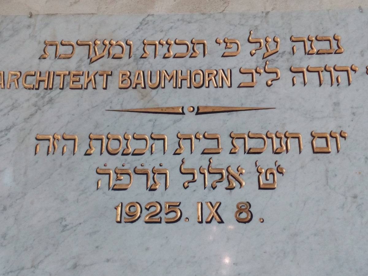 Memorial plaque of the inauguration date of the synagogue